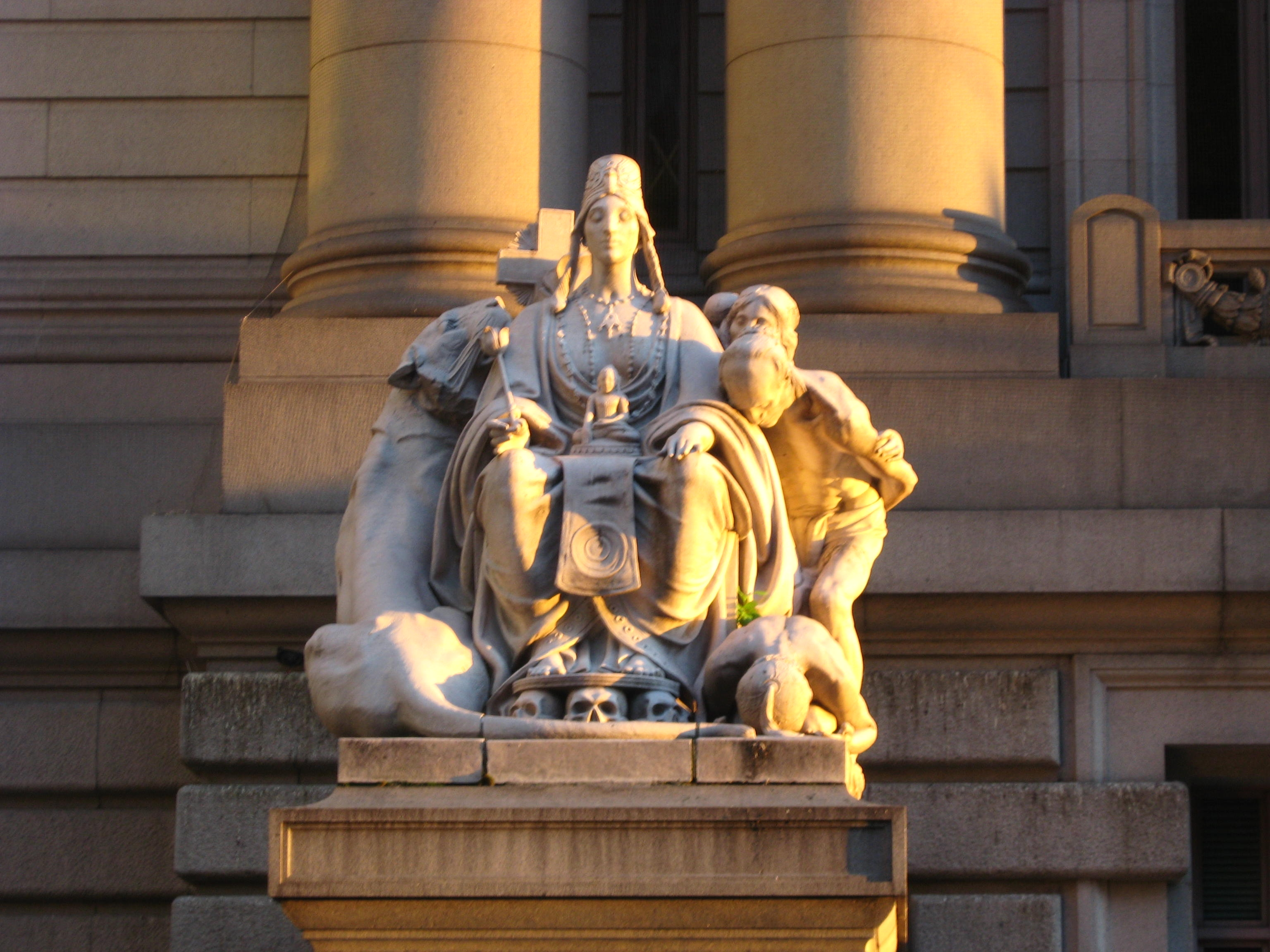 Easternmost statue on north side of Customs House, near dusk of a sunny day